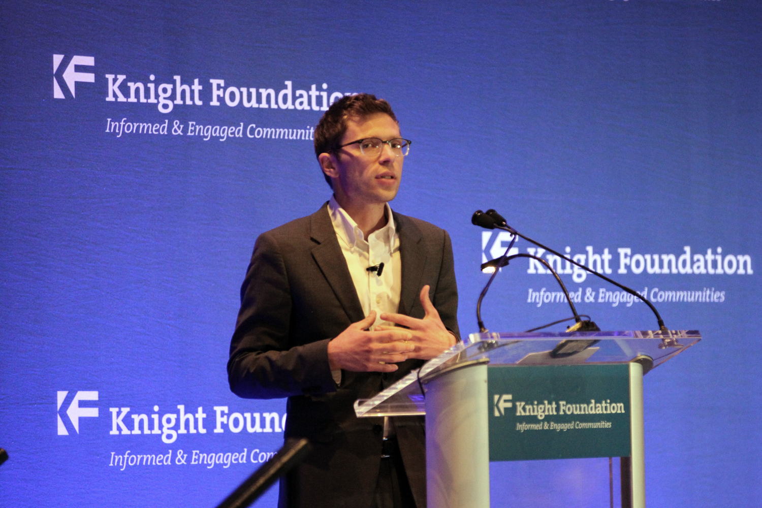 Jonah Lehrer makes a speech to the Knight Foundation after admitting that his book Imagine was based on fabricated quotes. Lehrer's speech was livestreamed over the internet and discussed on Twitter so that both Lehrer and the audience could see in real time the (often harshly critical) reaction to the speech, which was perceived as obfuscatory. (In this picture the screens are not visible - another photo uploaded to commons shows the audience's.) The episode forms a large part of Jon Ronson's book So You've Been Publicly Shamed, in which Ronson admits to having decided not to say to Lehrer before he made the speech that he found aspects of it unconvincing and evasive. The Knight Foundation was itself criticised for paying Lehrer $20,000 for the speech.